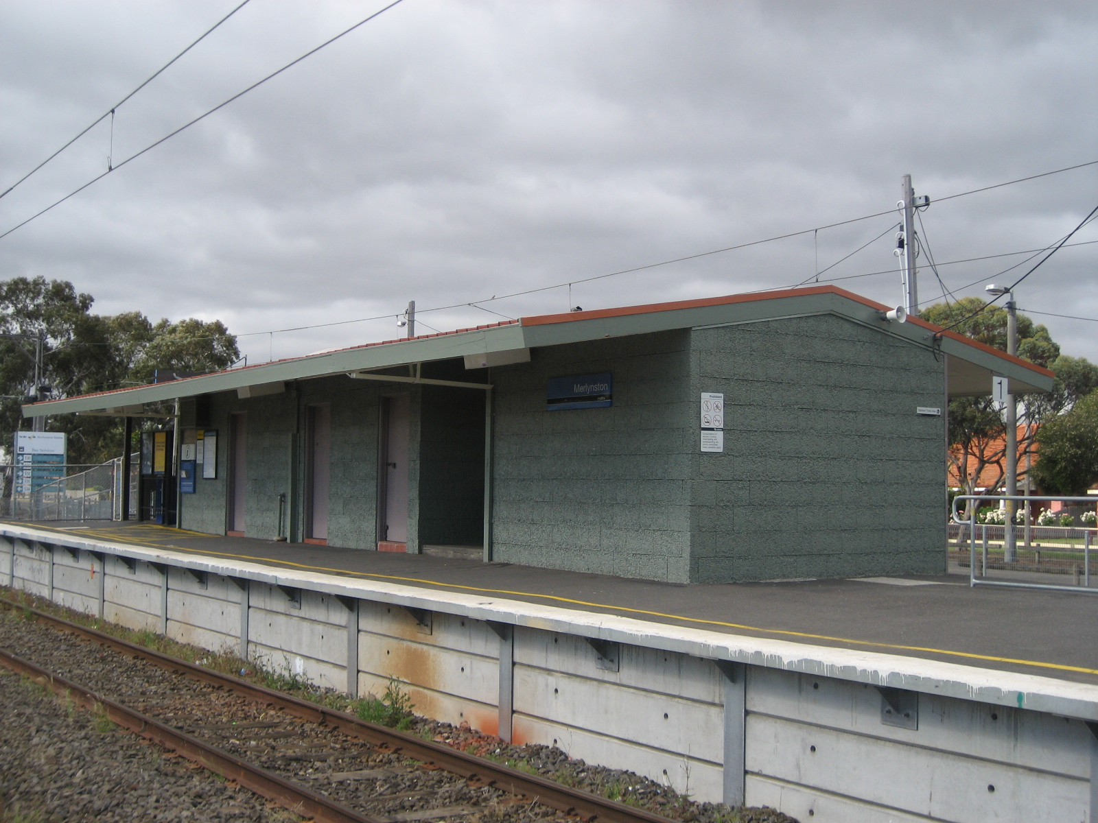 Station building with new paint and signage at Merlynston.